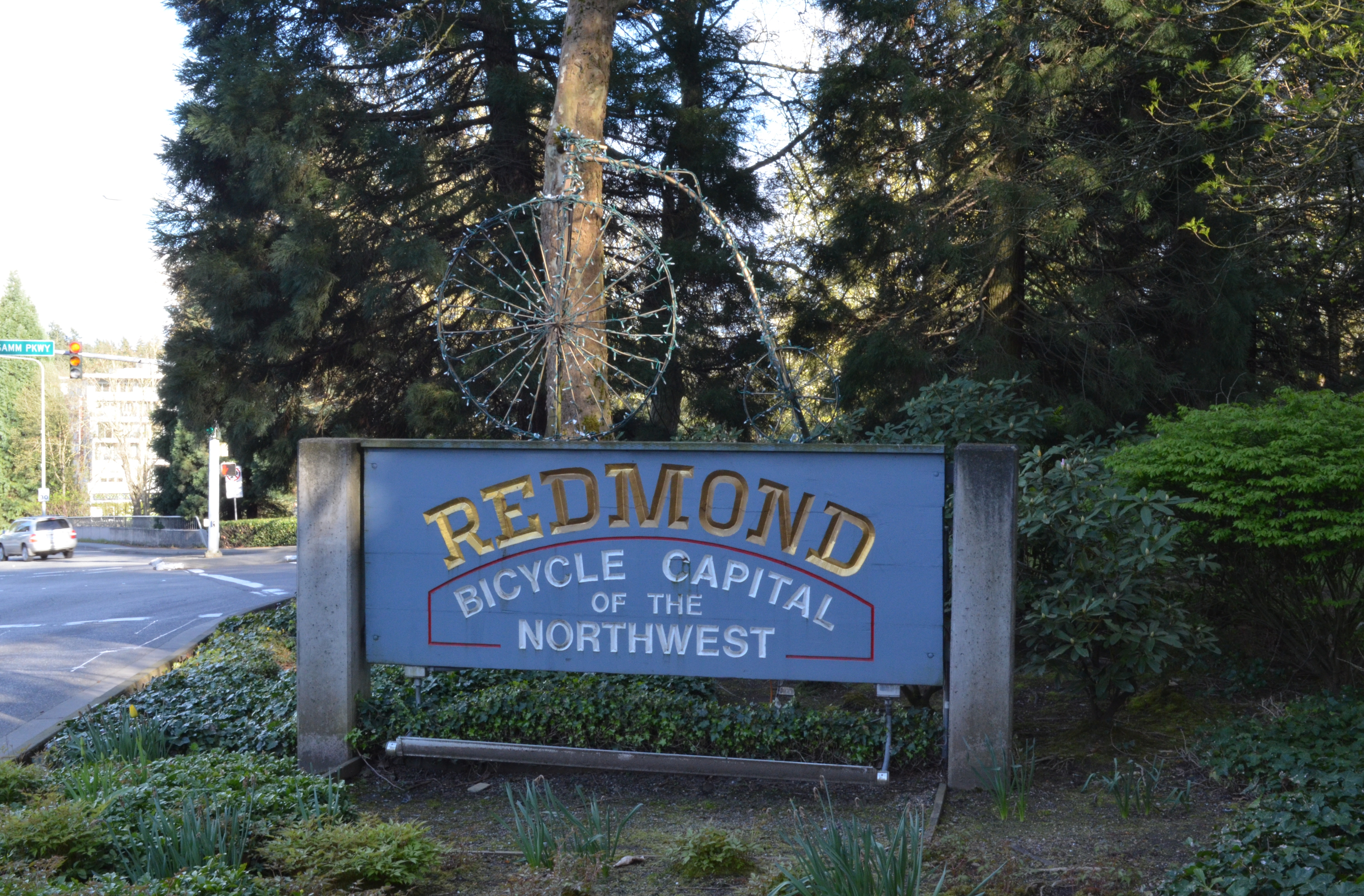 Sign in Redmond, Washington, reading "Redmond, Bicycle Capital of the Northwest".